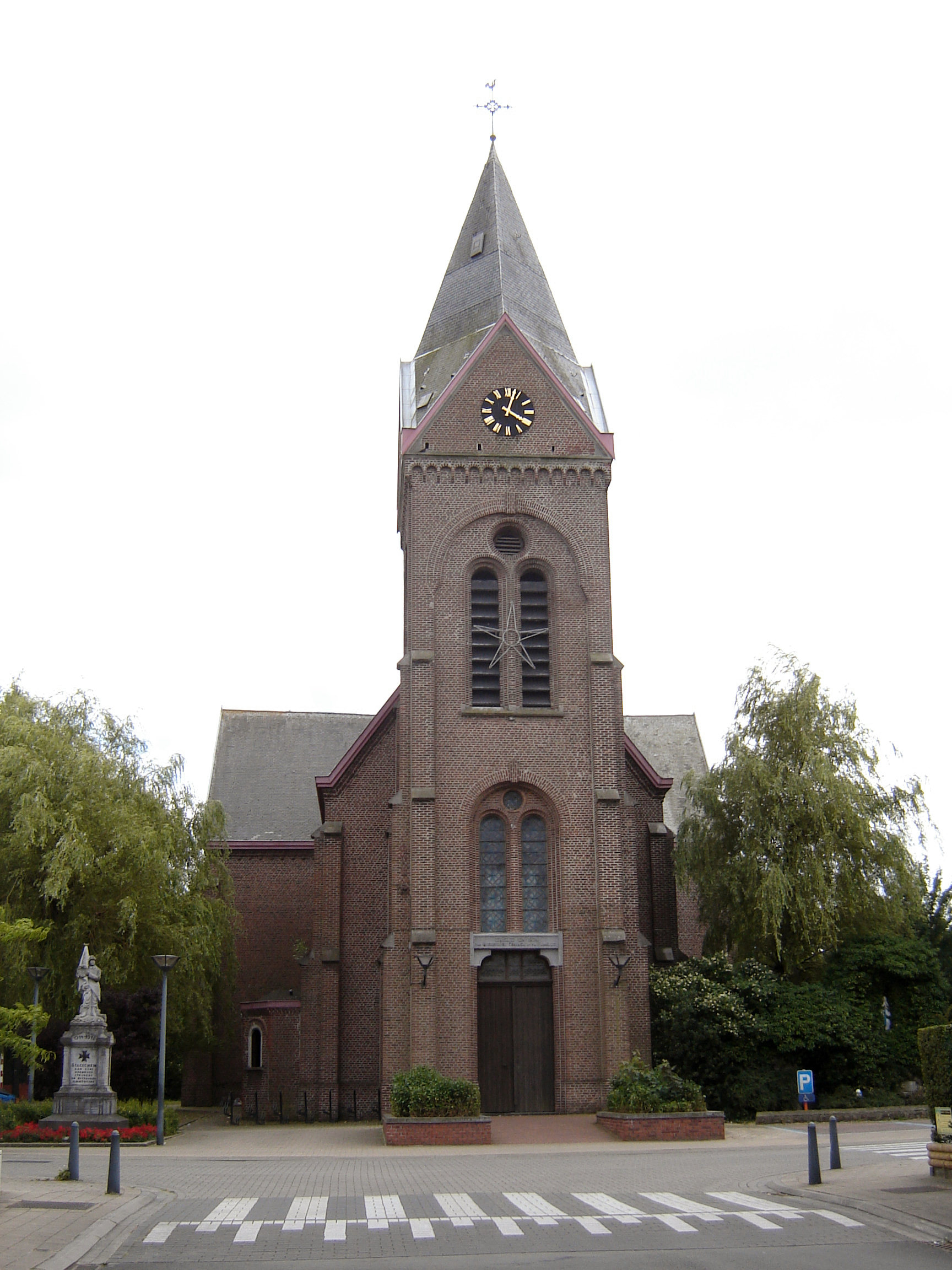 Church of Saint Augustine in the Stasegem quarter in Harelbeke. Harelbeke, West Flanders, Belgium